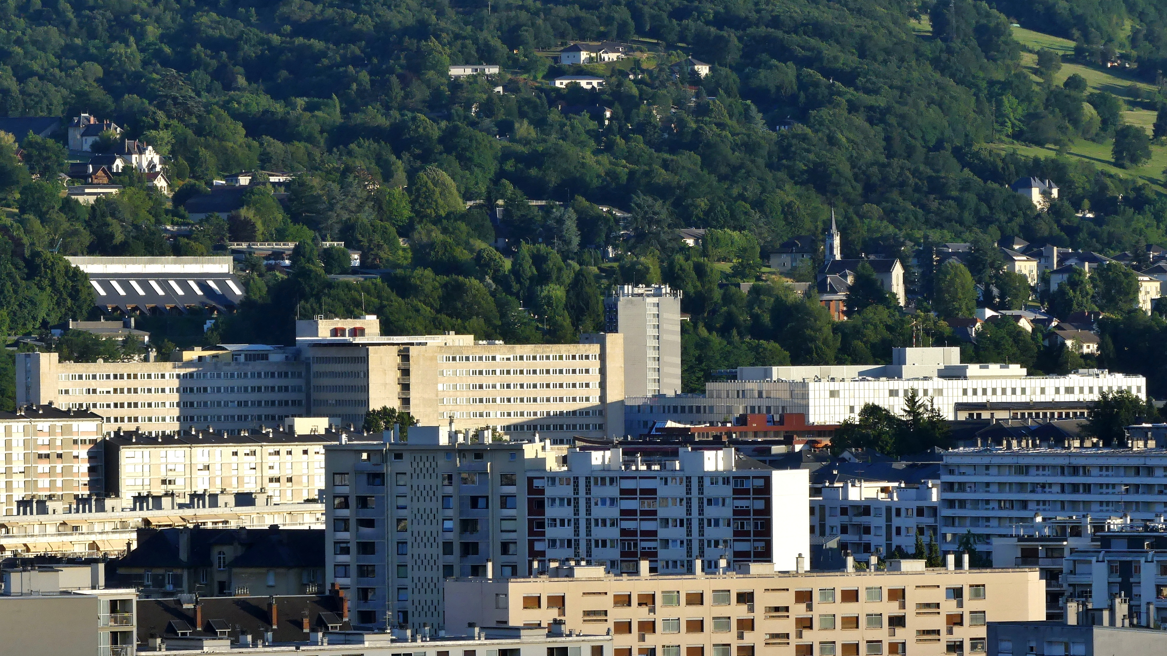 Sight of the high residential buildings of Angleterre and Covet neighborhoods of Chambéry, with visible the former (left) and the new (right) hospital centers, in Savoie, France.